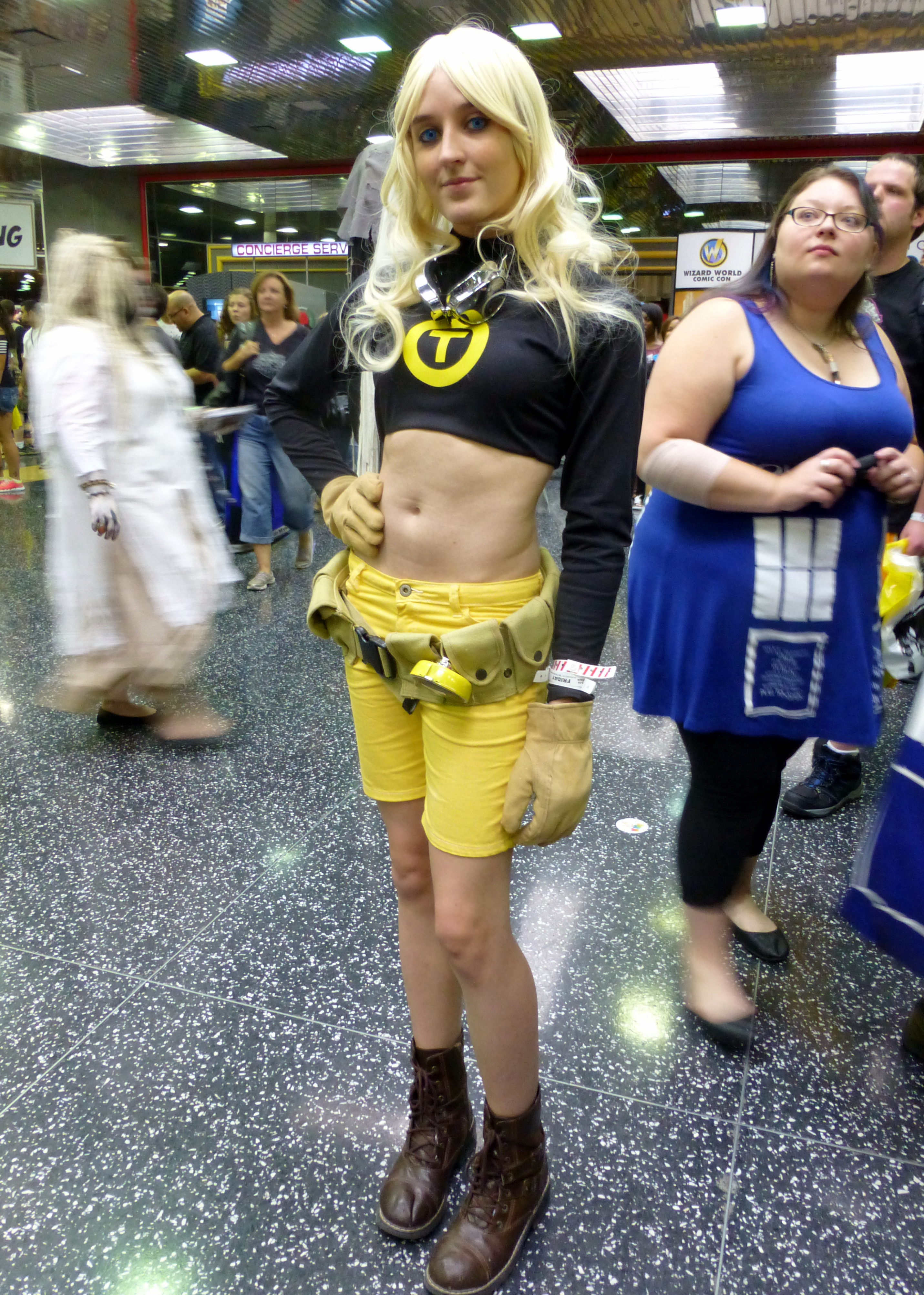 Cosplay at the 2014 Wizard World Chicago.